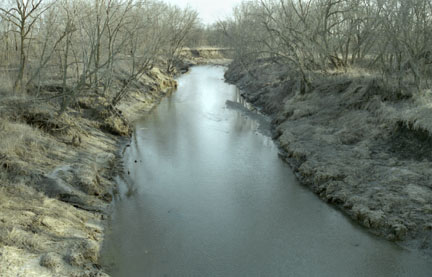 Photograph by Tim Kiser. East Fork One Hundred and Two River near Bedford, Iowa, 8 March 1997.